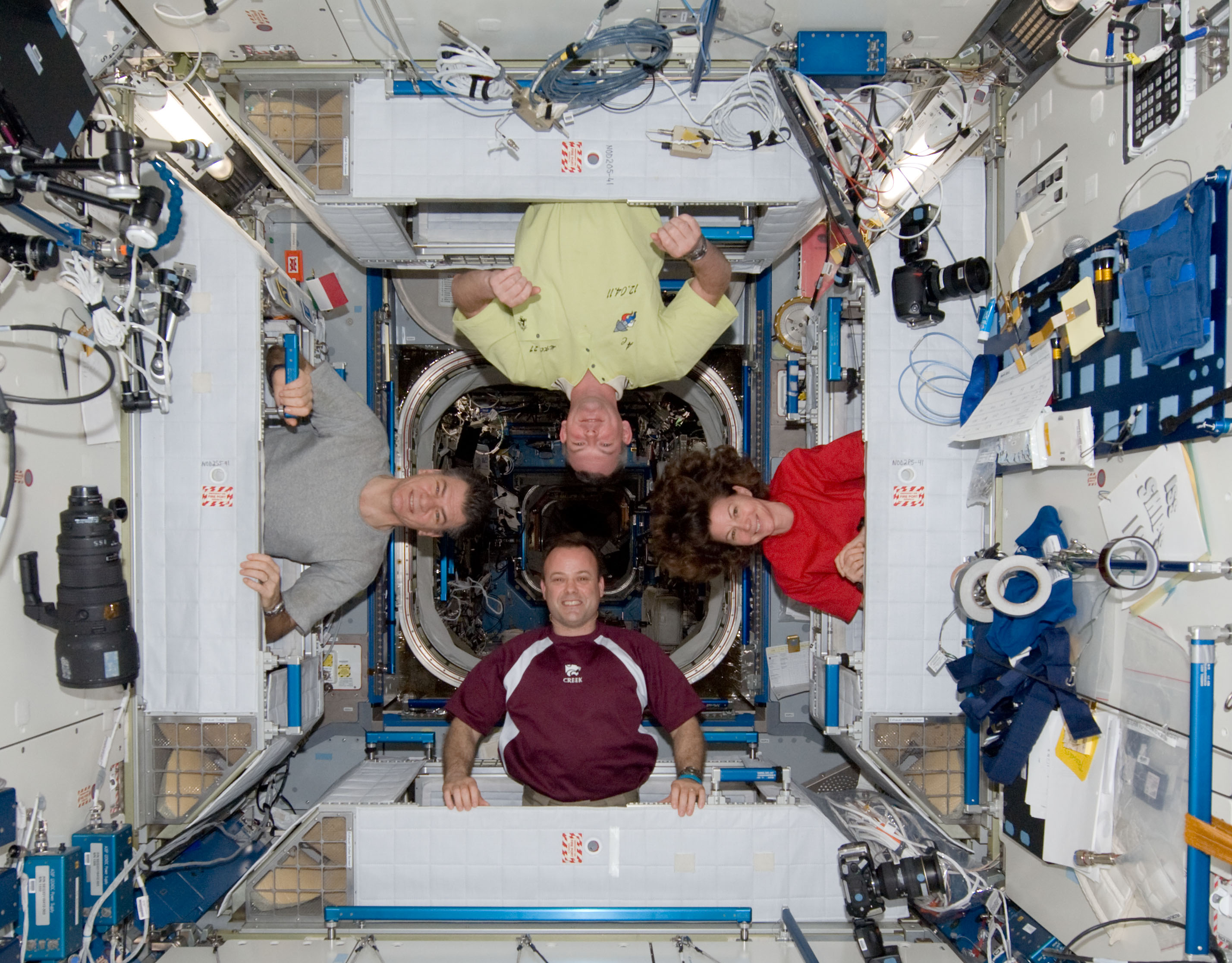 NASA astronauts Ron Garan (bottom) and Cady Coleman, European Space Agency astronaut Paolo Nespoli (left) and Russian cosmonaut Alexander Samokutyaev, all Expedition 27 flight engineers, pose for a photo in the Harmony node of the International Space Station.